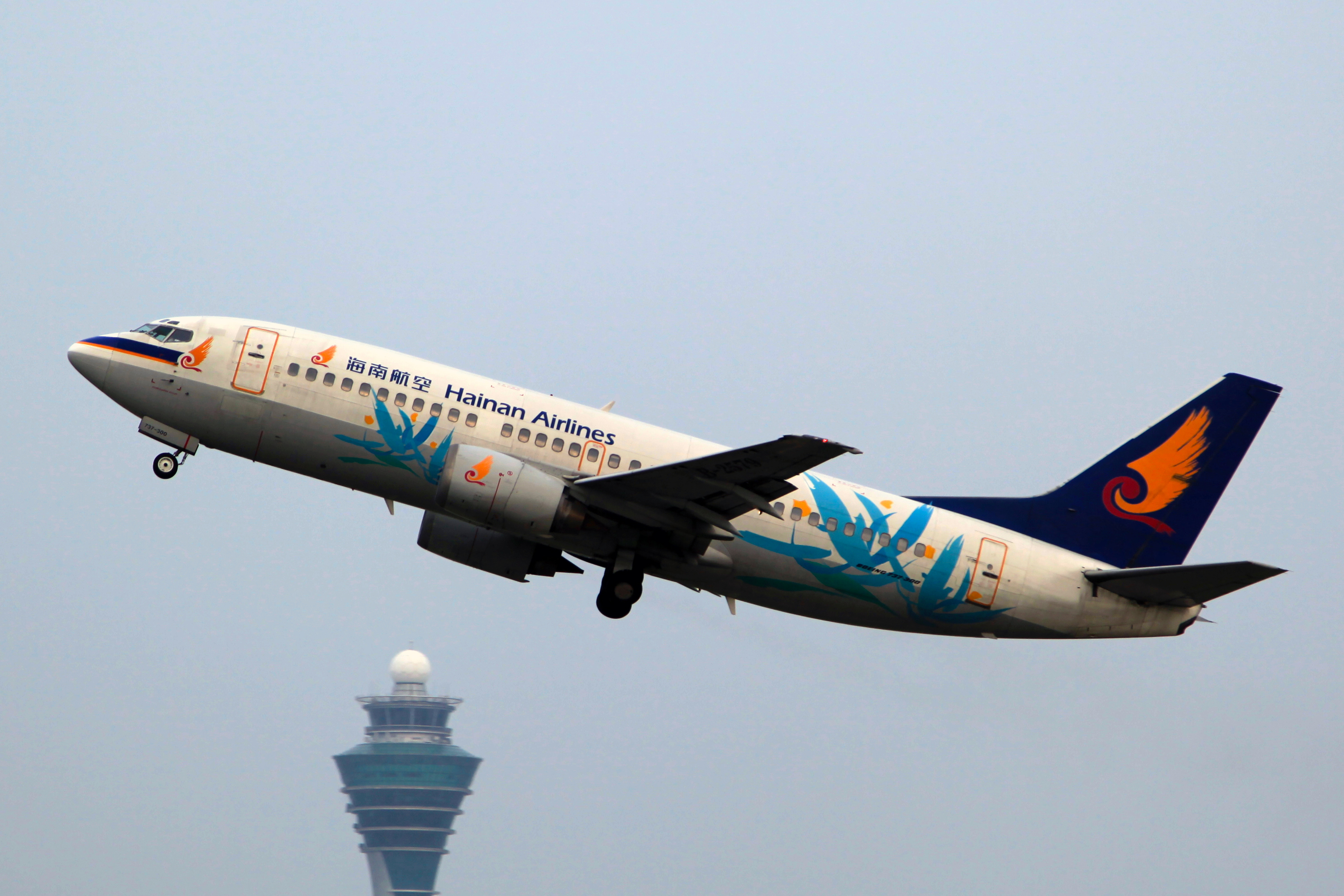 Hainan Airlines Boeing 737-33A B-2579 @ Guangzhou Baiyun International Airport